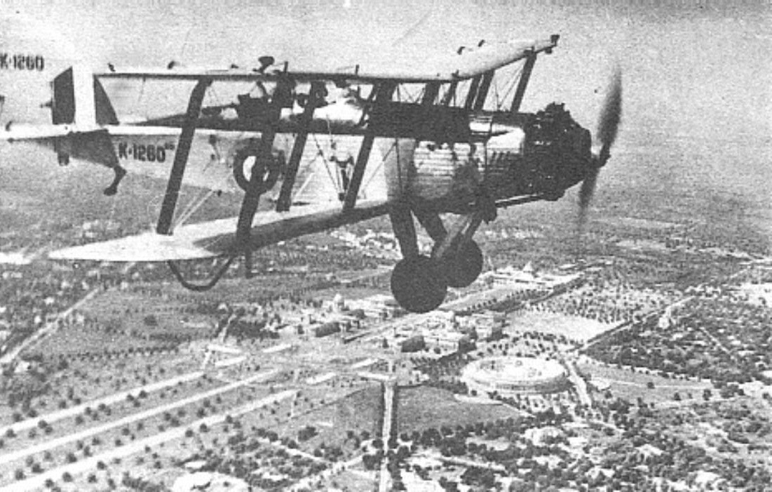 K1260 of No 1 Squadron IAF seen over New Delhi with the Viceroy’s residence and Kingsway in the background.(this machine was lost in a forced landing at Bhuj on 4 Jan 1941 whilst with 5 CDF)